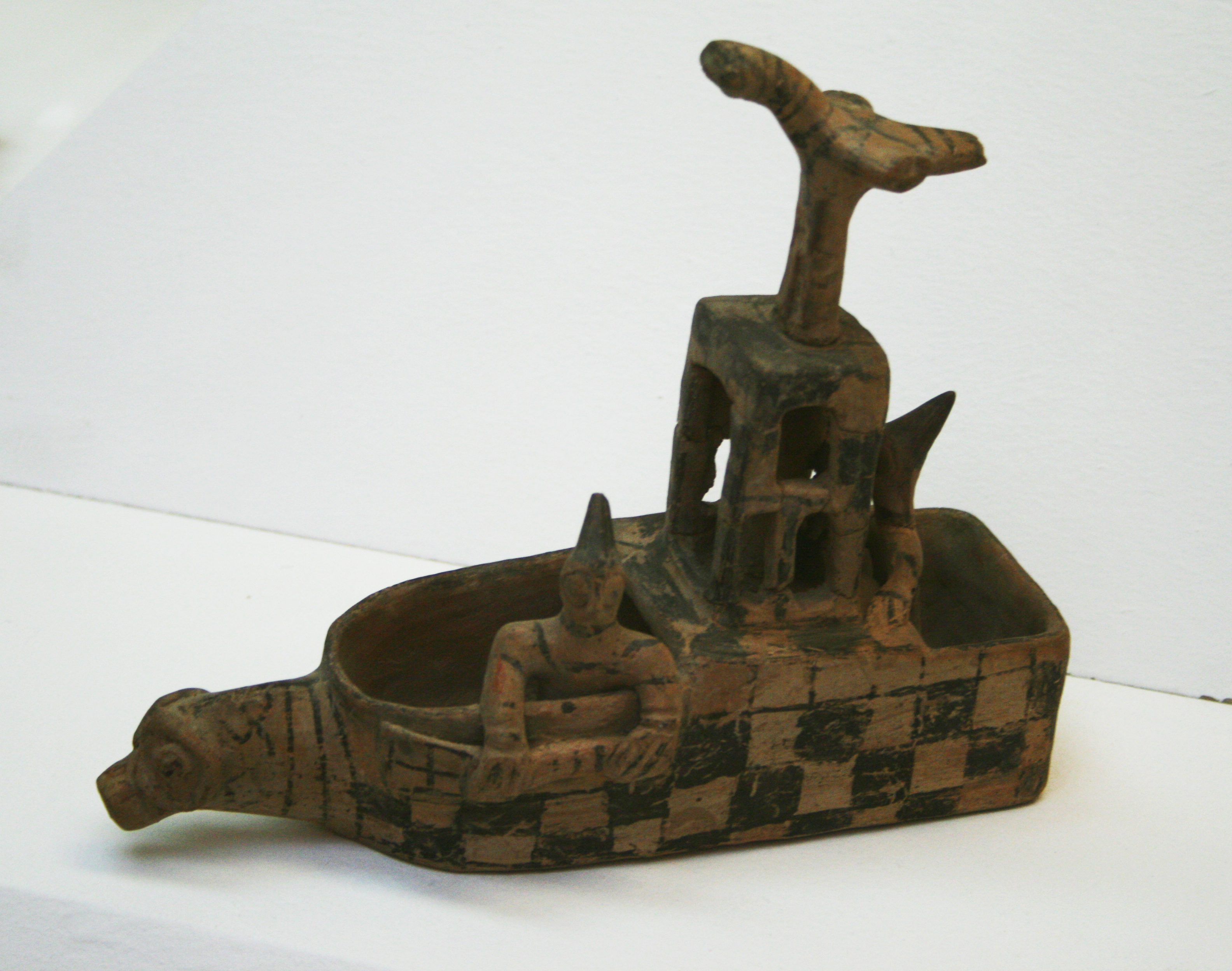 A vessel shaped rhyton from Kültepe, an archaeological site in Turkey.